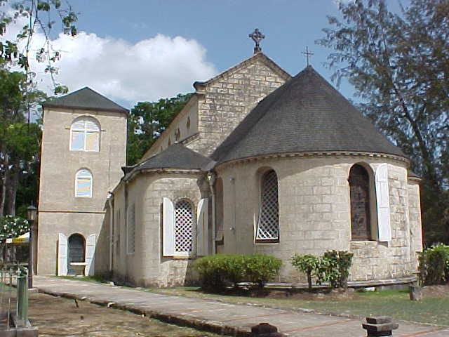 St. James Parish Church from eastern side. Saint James, Barbados.